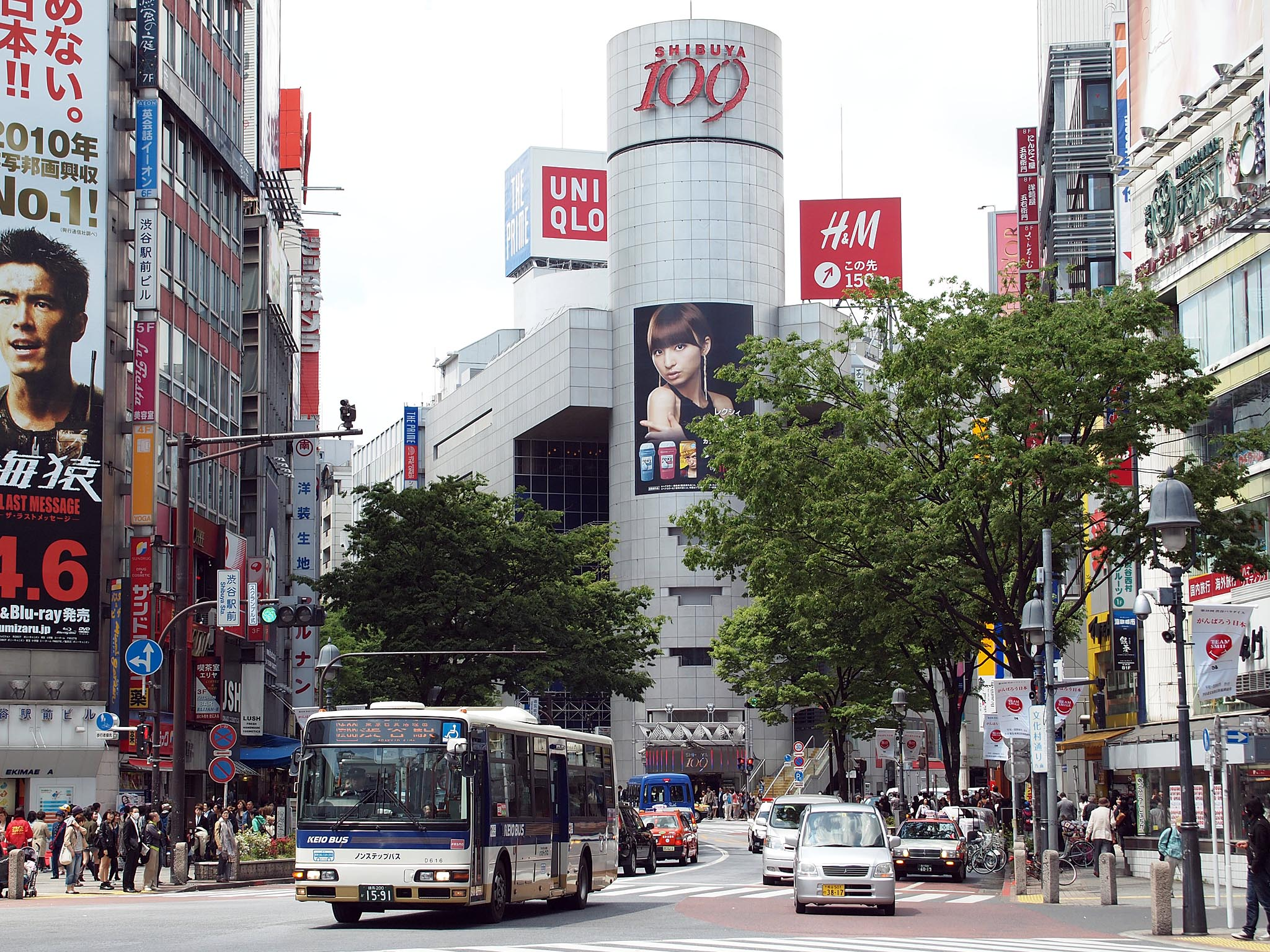 Keio Bus Higashi Shibu 66 Route (between Shibuya and Asagaya, with Toei Bus) Model: Mitsubishi Fuso Aero Midi PA-MK27FM License plate: TKN200 KA1591 Place: Neighbour of Shibuya Station, Tokyo Japan